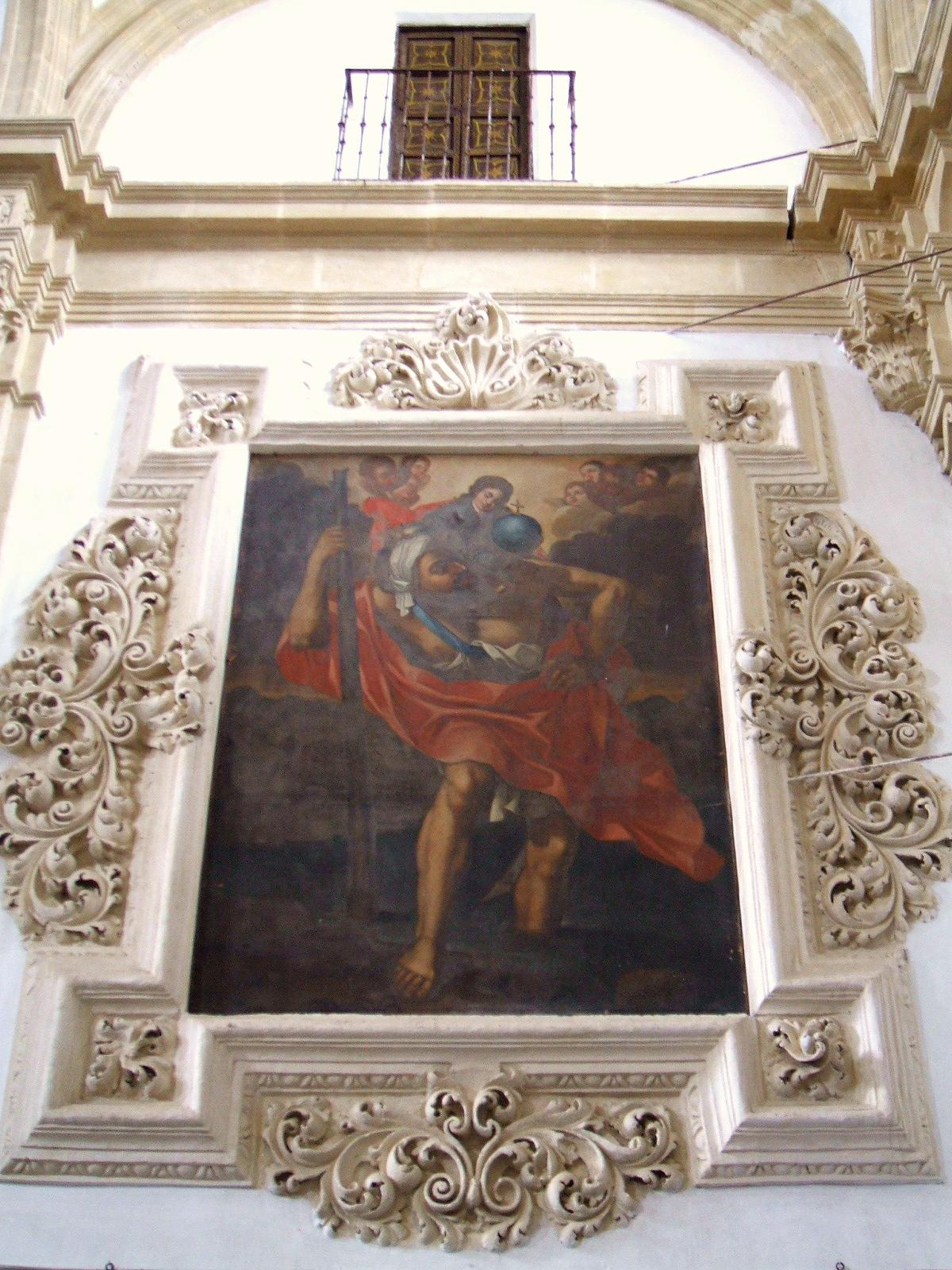 Lienzo de San Cristóbal en la Catedral de Baeza (Jaén, Andalucía, España)